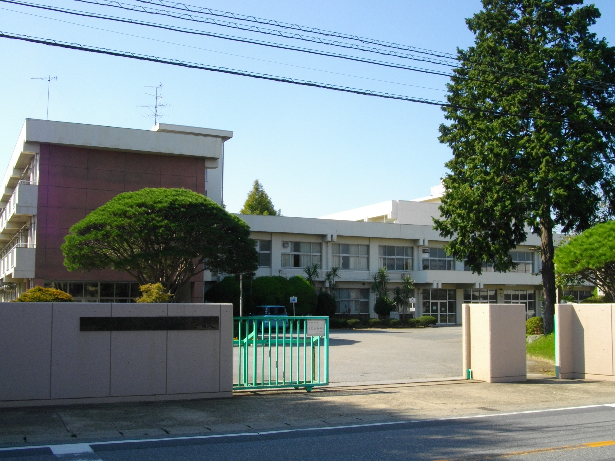 Chiba Prefectural Shimizu High School